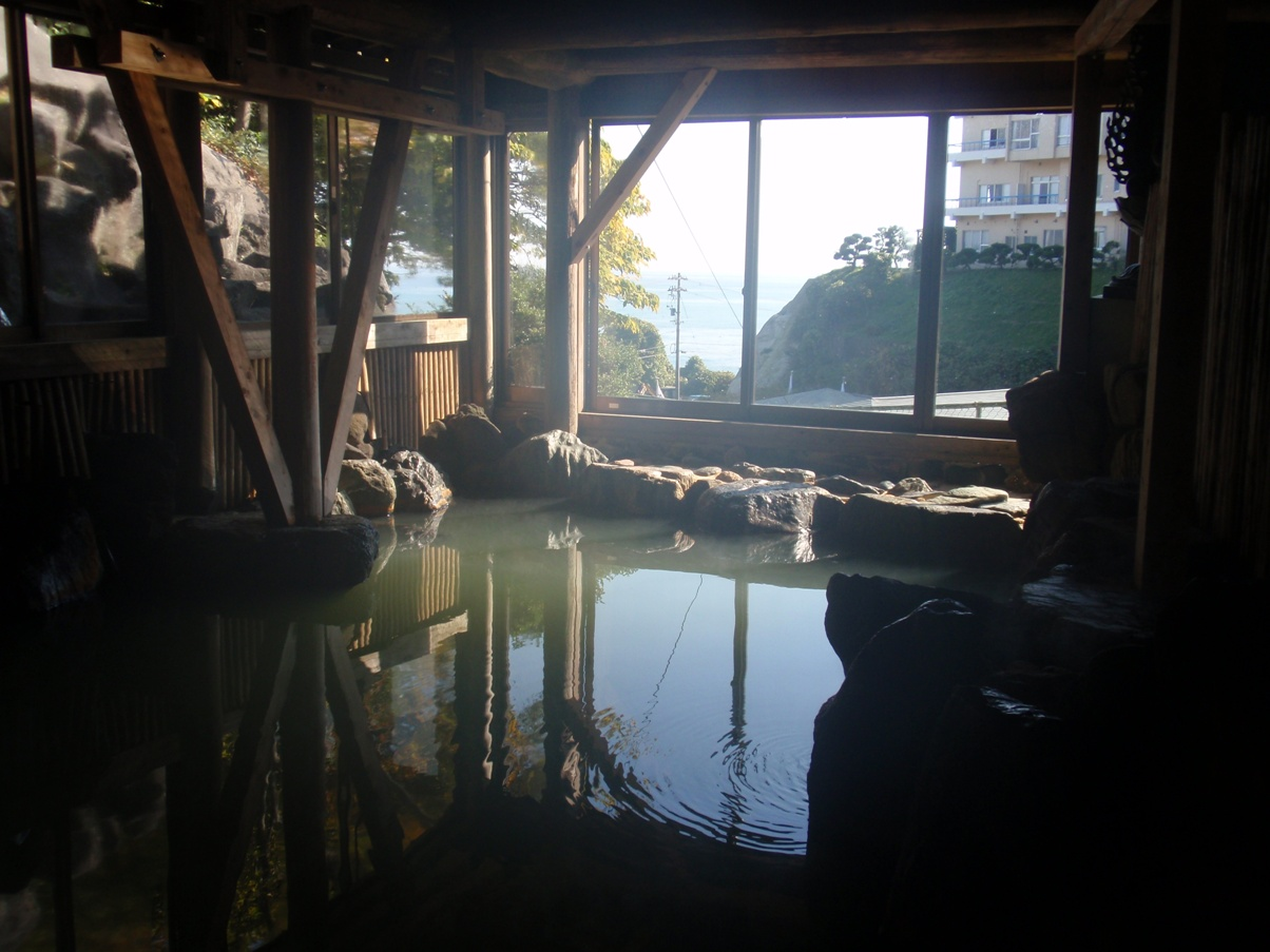 Himi-iwatoi spa in Himi, Toyama.